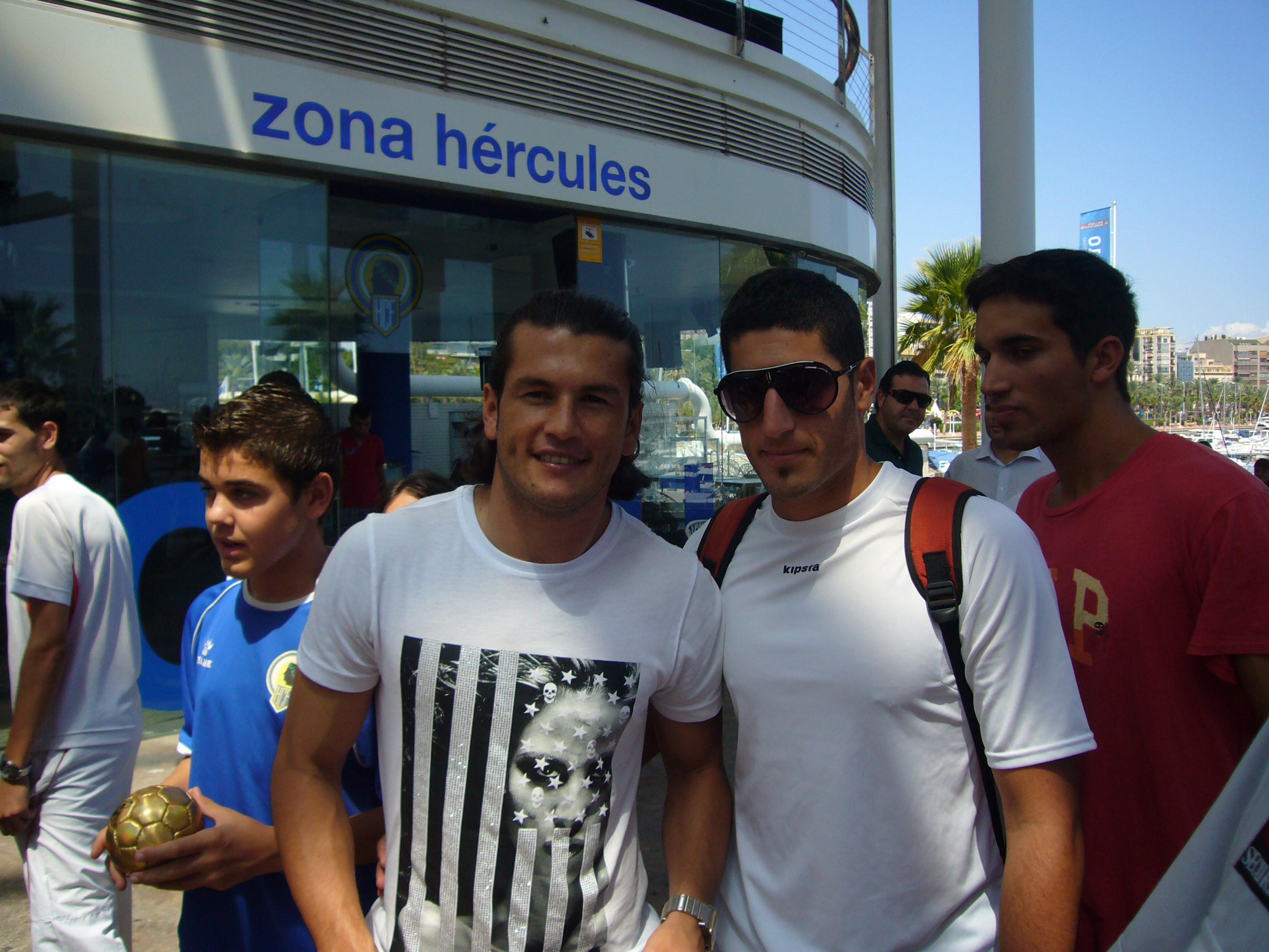 Nelson Haedo Valdez fans attending on the day of your presentation as a player of Hércules CF. Place: Store and Hercules official pub located in the mall Panoramis at the Port of Alicante.